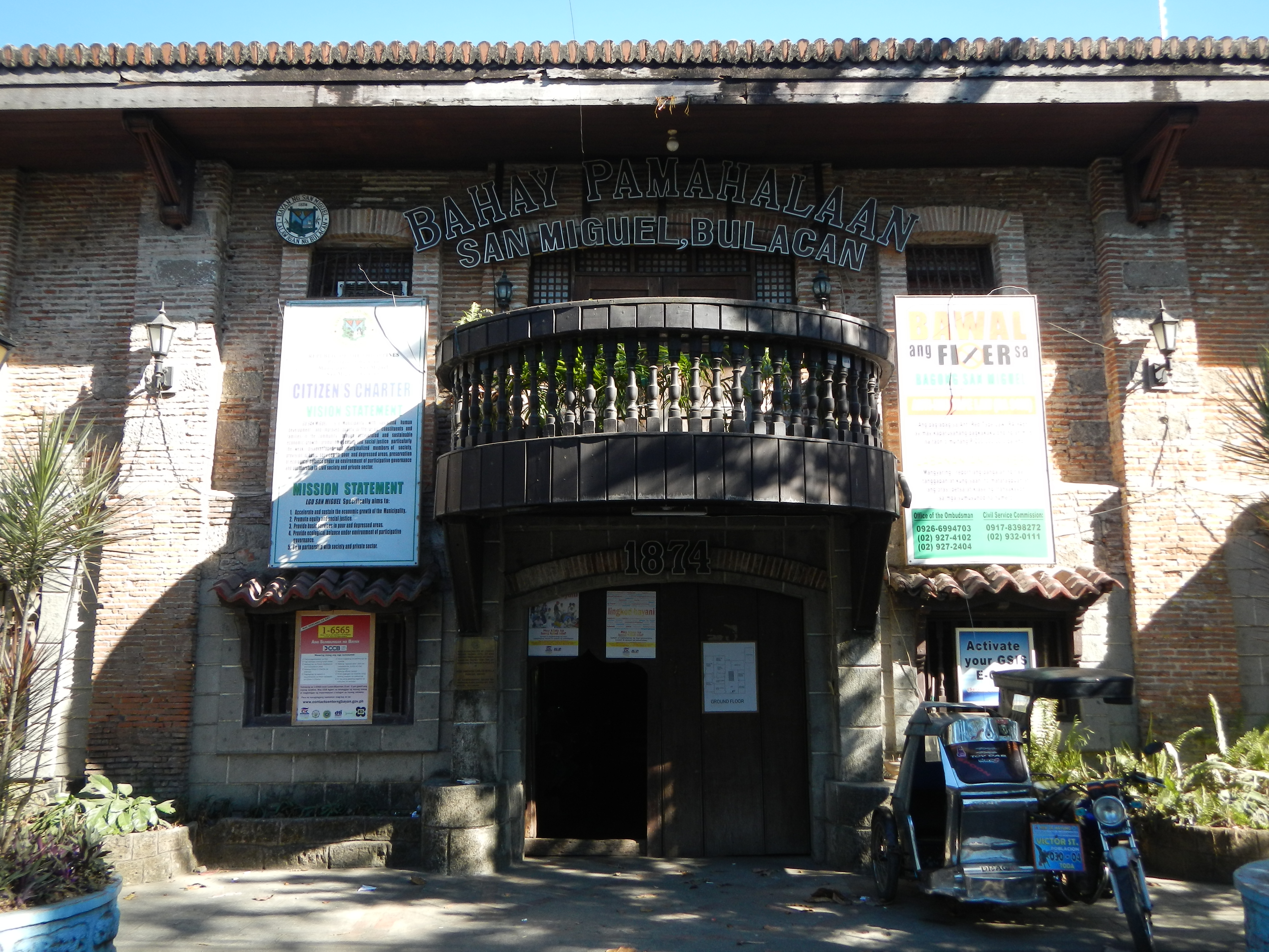 Town hall of San Miguel, Bulacan[1] an Miguel de Mayumo is a first class, urban municipality located in the third district of the province of Bulacan, Philippines.